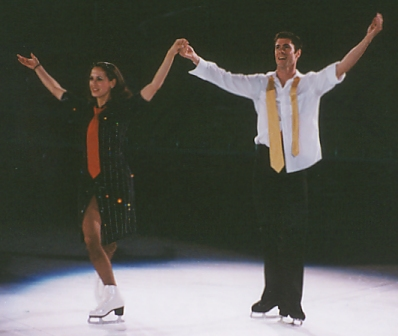 Elizabeth Punsalan and Jerod Swallow skate an exhibition program at the 2002 Champions on Ice show in Buffalo, NY. Photo taken by me, Vesperholly 07:50, 17 July 2006 (UTC)